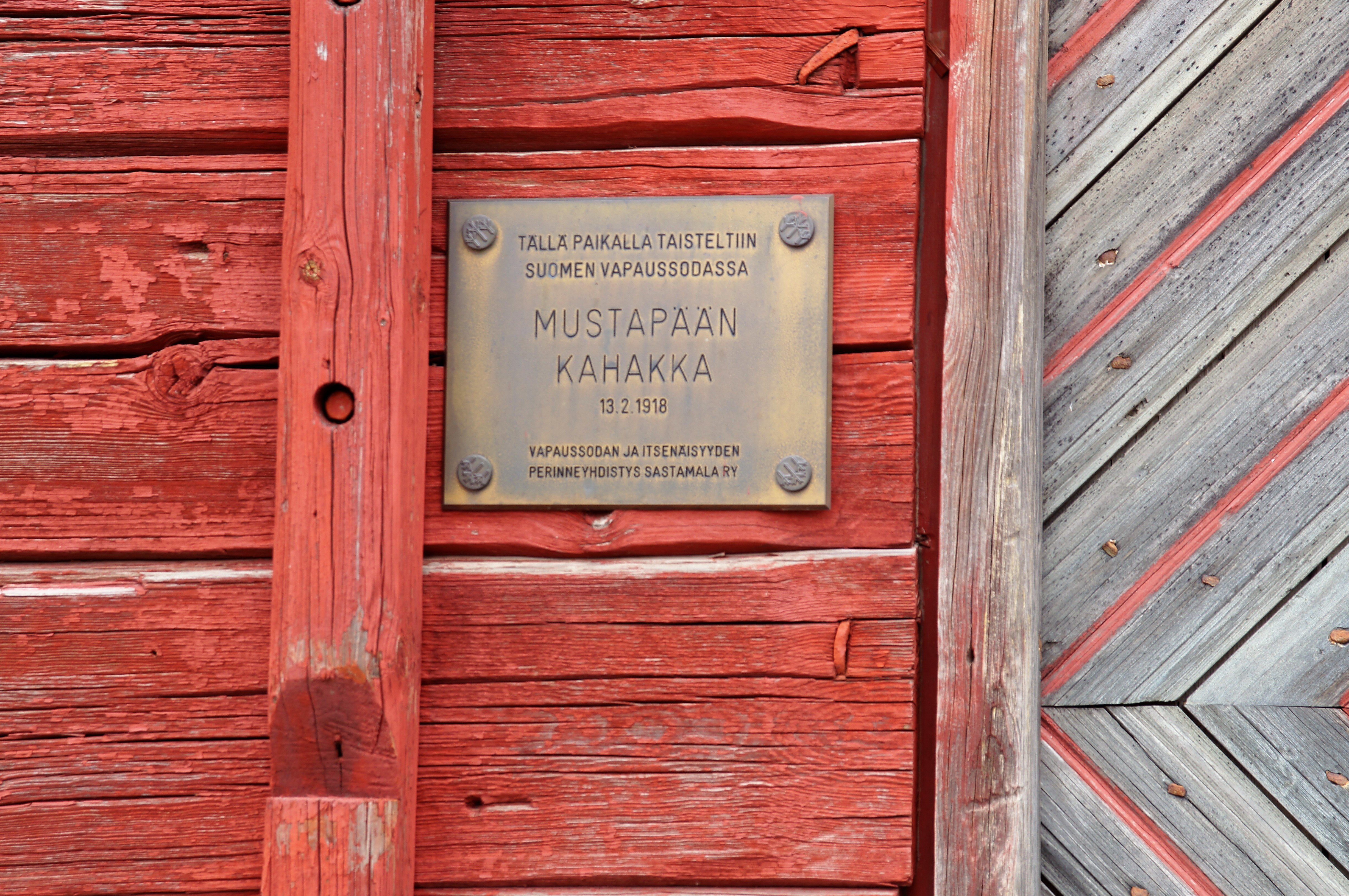 Mustapää Skirmish (1918) memorial plate in Sastamala, Finland.